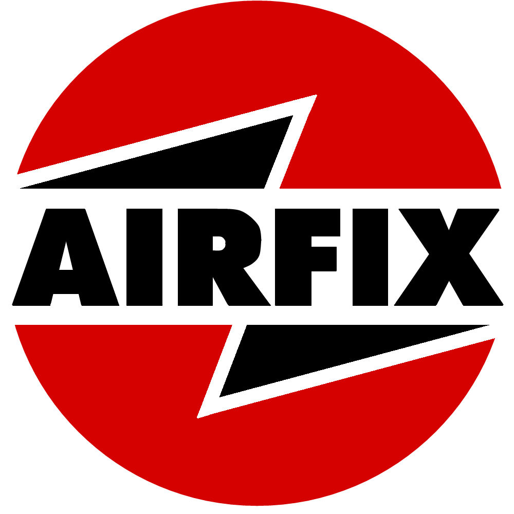 Simplified logo of Airfix.